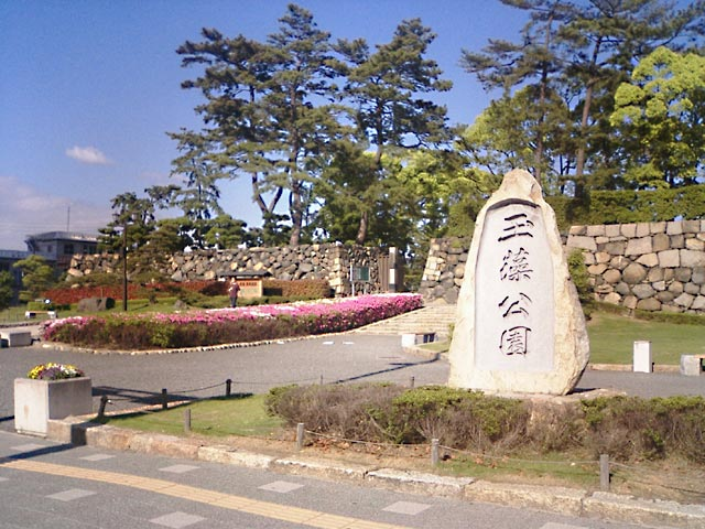 photo of Sanuki Takamatsu Castle Park(Tamamo Kōen) entrance